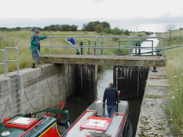 Harlam Hill Lock. Top lock on the R Ancholme - and the only one apart from the entrance at the Humber.